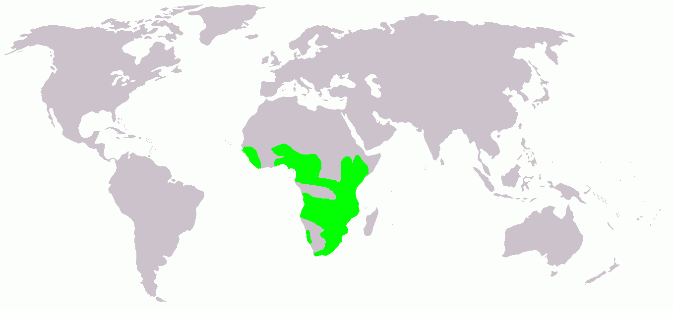 Distribution map of Actophilornis africana